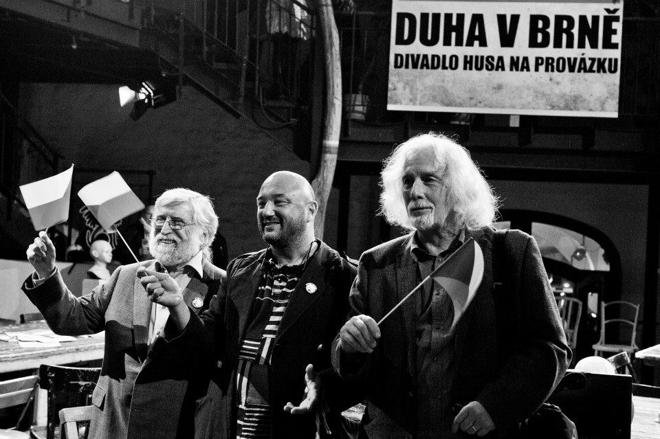 40 year's of Divadlo Husa na Provazku of Brno with Ivan Havel, Frédéric Poty and Petr Oslzly